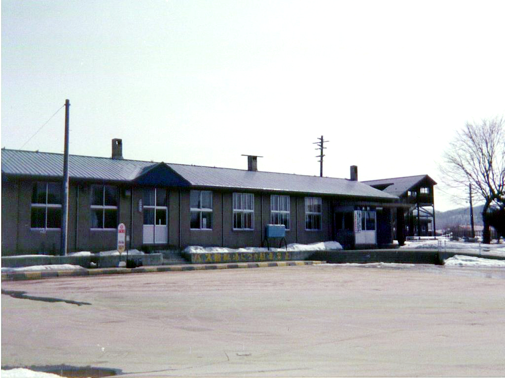 Former Naka-Yūbetsu Station building